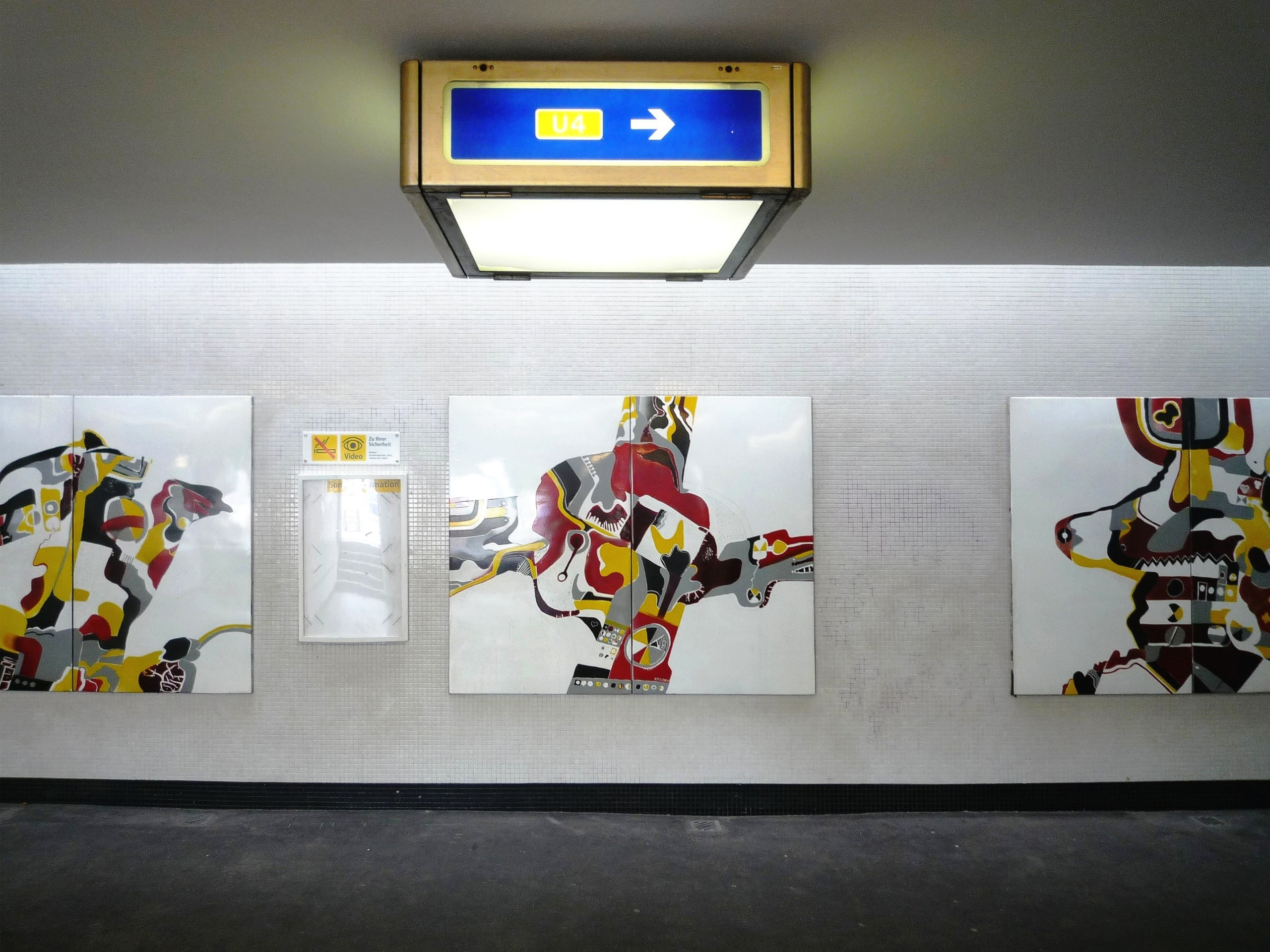 Berlin, subway-station Bayerischer Platz. Wall-design in the entrance-hall.